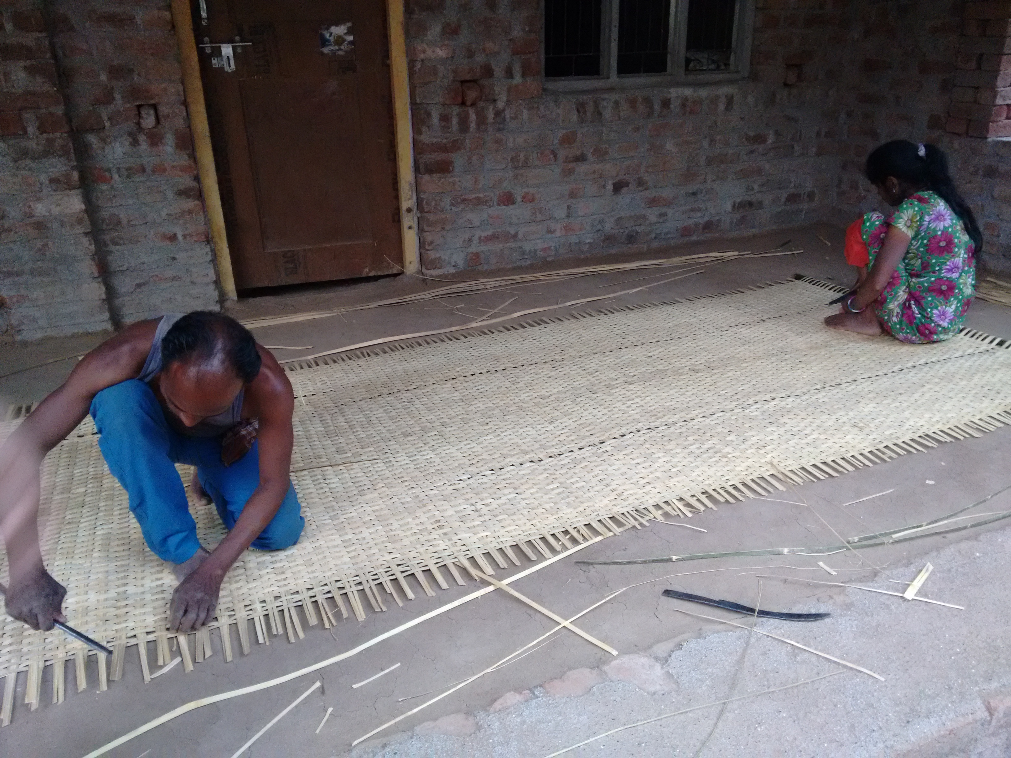 the whole family member help to do this chatai making work whole day, which is sold in local market.